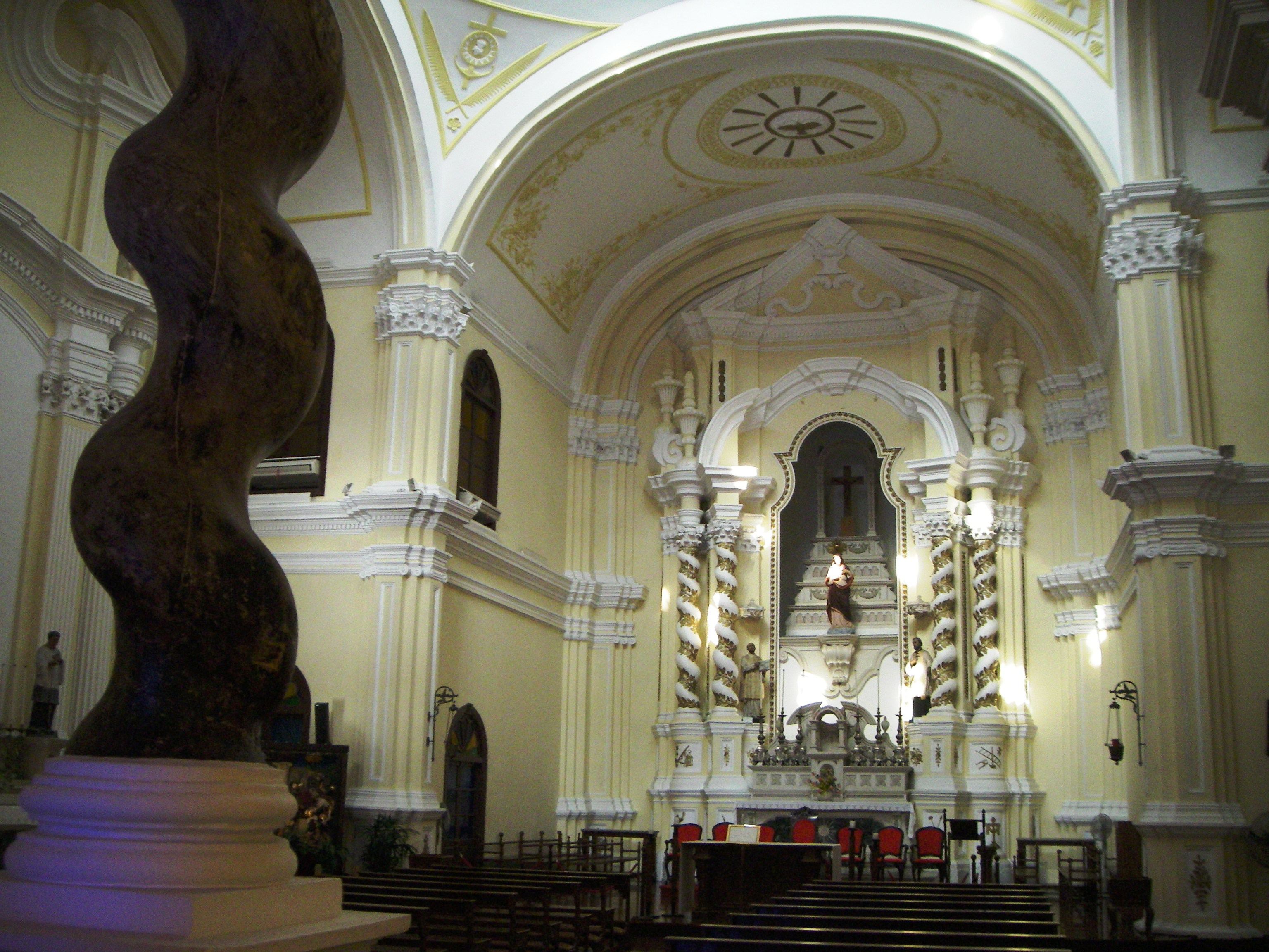 Sao Jose Seminary showing the altar and one of the columns from St Francis' Seminary, Macau